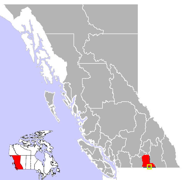 Grand Forks, location.